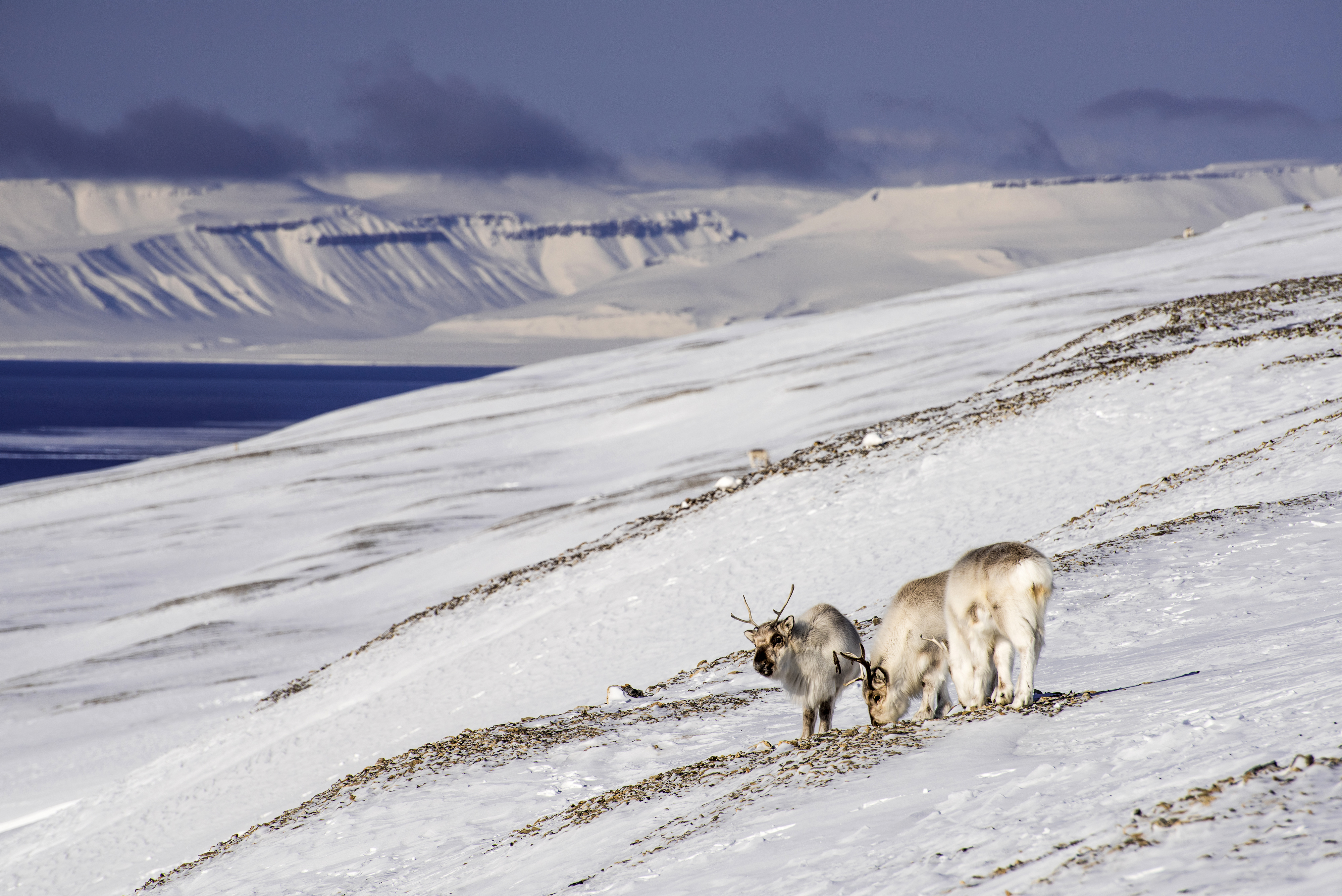 Sassen – Bünsow Land National Park lies on Spitsbergen island in the Svalbard archipelago. The Svalbard reindeer is well adapted to the harsh climate, and is the most northern living herbivore mammal in the world. They remain short-legged and have a relatively small, rounded, head. Their fur is also lighter in colour and thicker during winter.